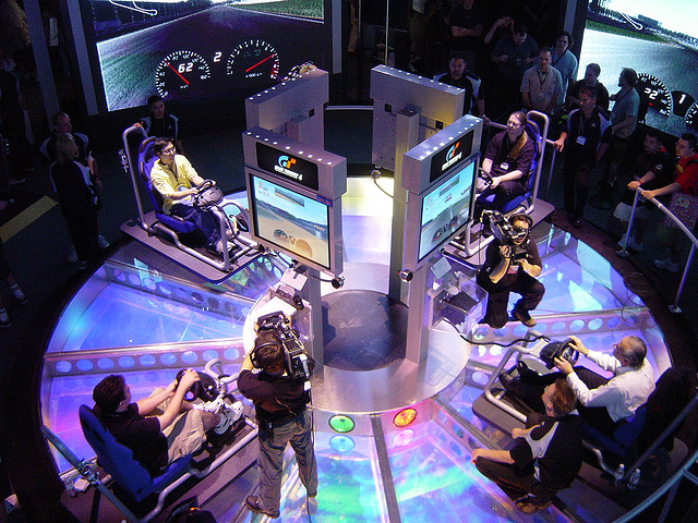 This photo was taken on May 14, 2003 in Dowtown Carrier Annex, Los Angeles, CA, US, using a Sony Cybershot.